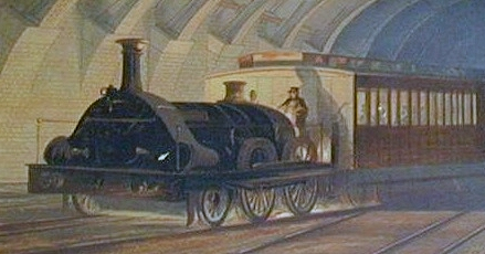 A drawing of a broad gauge GWR Metropolitan class locomotive as used on the underground Metropolitan Railway from 1863 to 1869.